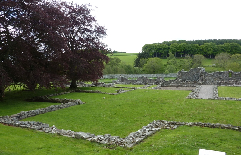 Deer Abbey, Old Deer, Aberdeenshire, Scotland. Church, viewed from the north.